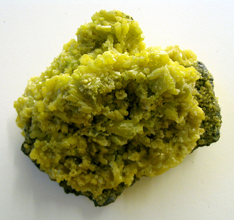 Pyromorphite from Broken Hill, New South Wales, Australia. Photograph taken at the Natural History Museum, London.